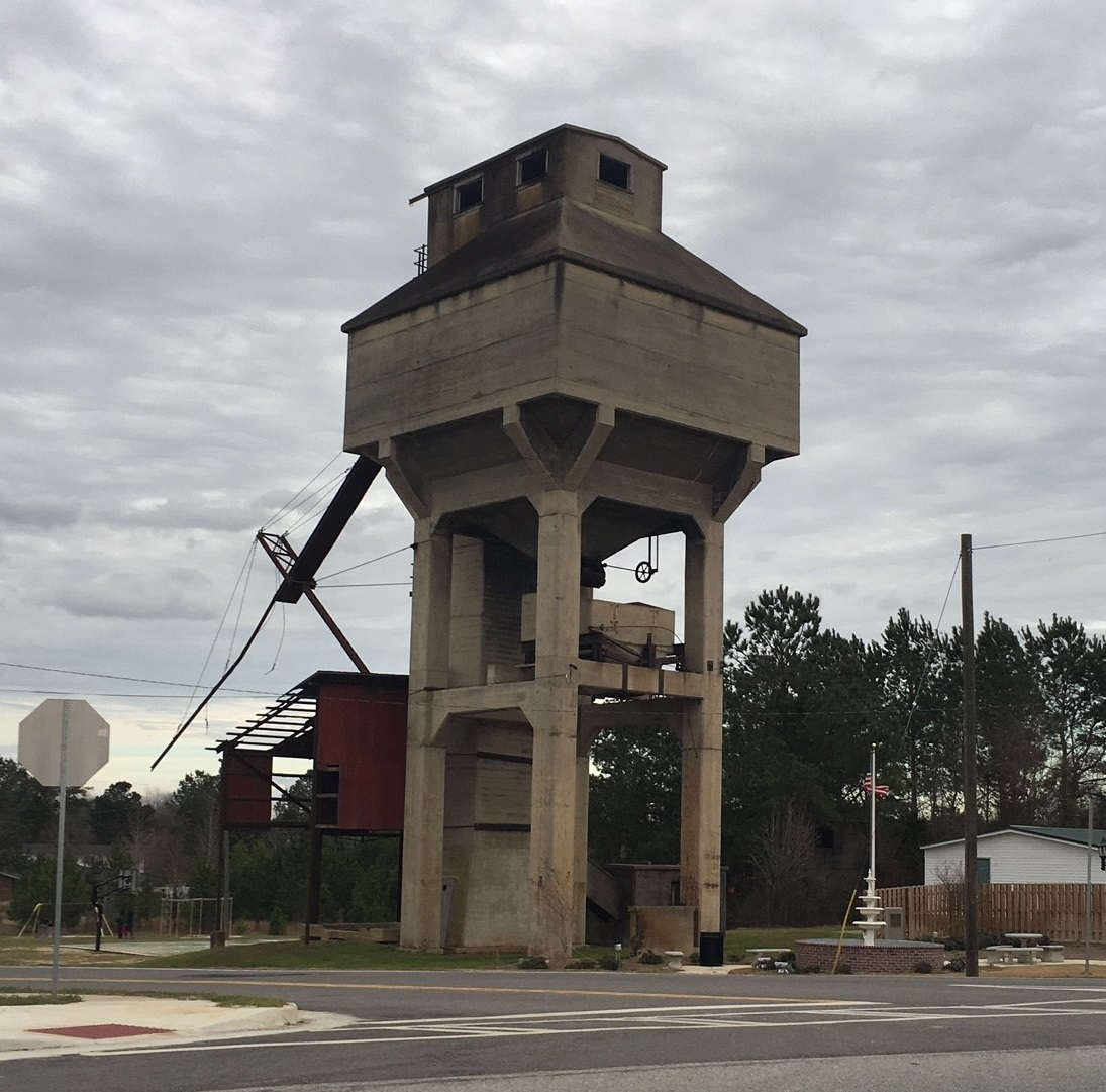 Coal Chute located on Charles Perry Avenue in Sardis, Georgia